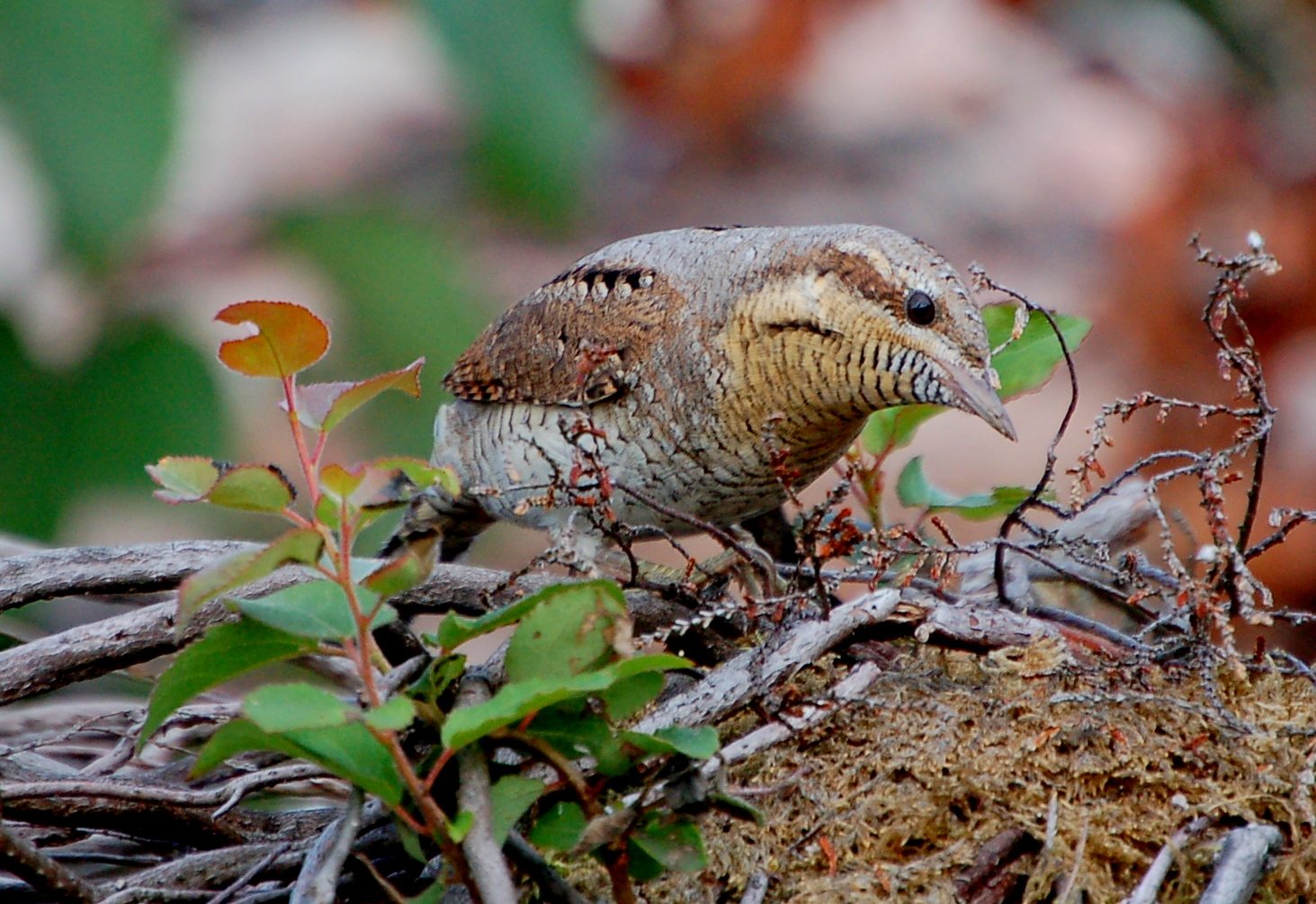 A Eurasian Wryneck in Ramsøy, Norway.